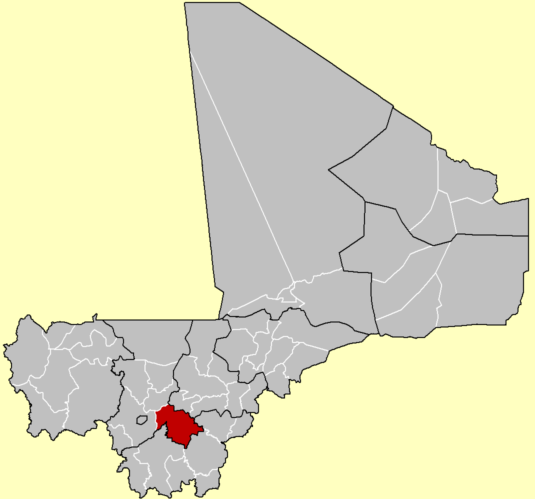 Map of Dioila Cercle, Mali